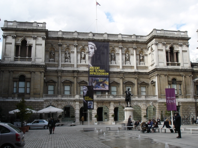 photo taken by lonpicman Burlington House Piccadilly London View of Courtyard